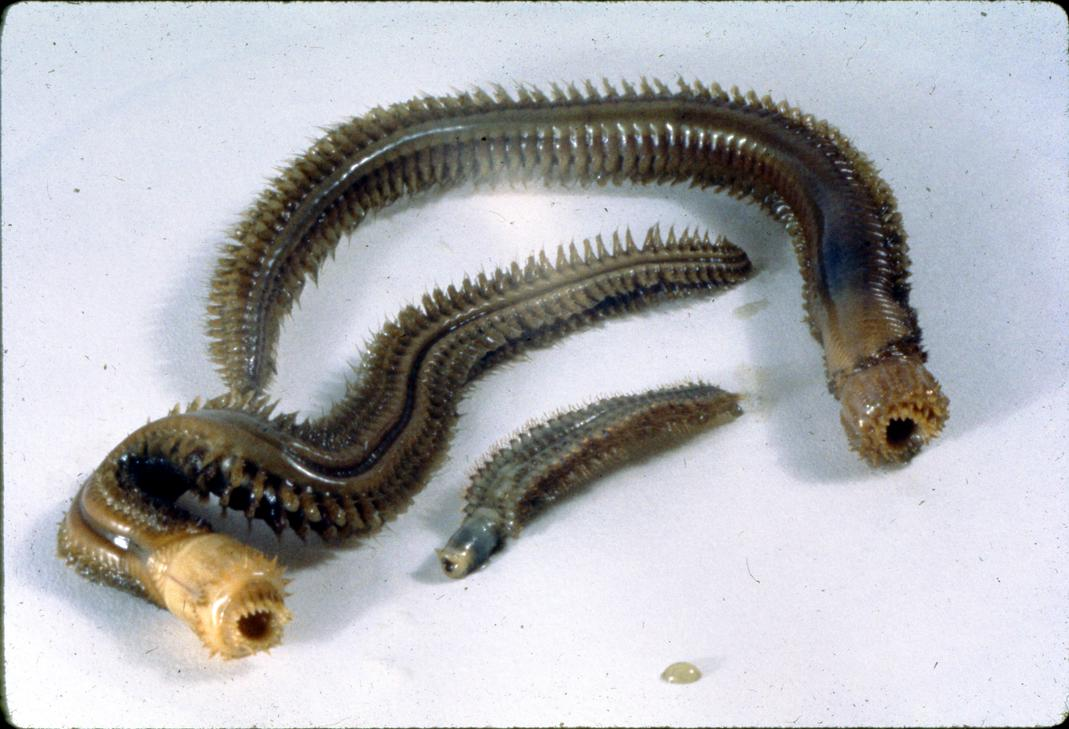 Nepthyidae polychaetes, found near the Palmer Peninsula, Antarctica, 1962. Local number: SIA2012-0671 Summary: SIA RU007231, Box 139, Folder "Palmer Peninsula Survey, 1962-1963". Taken during underwater specimen collecting during Waldo Schmitt's work on the Palmer Peninsula, 1962-1963. Repository: Smithsonian Institution Archives View more collections from the Smithsonian Institution.